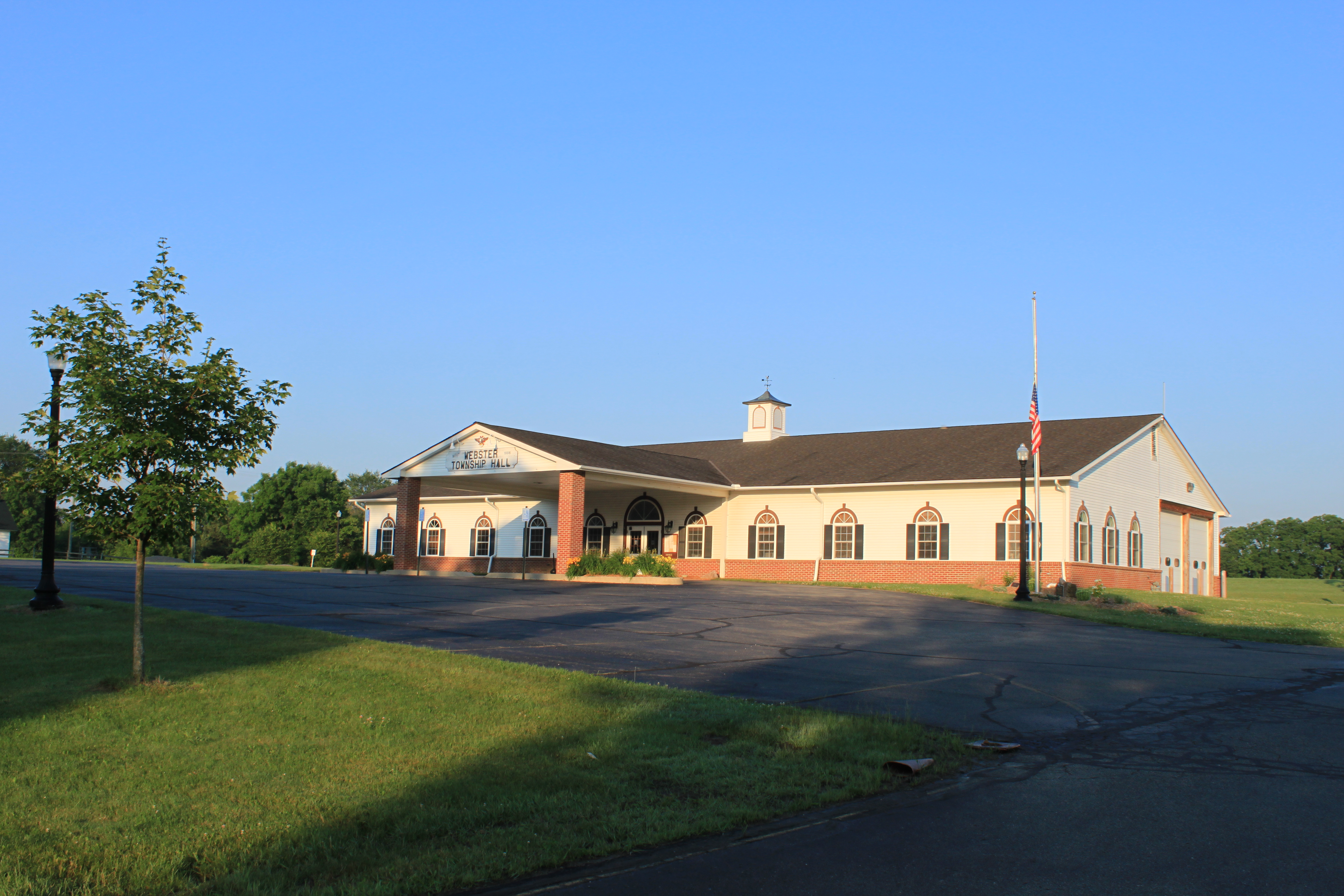 Webster Township Hall, Michigan, 5665 Webster Church Road